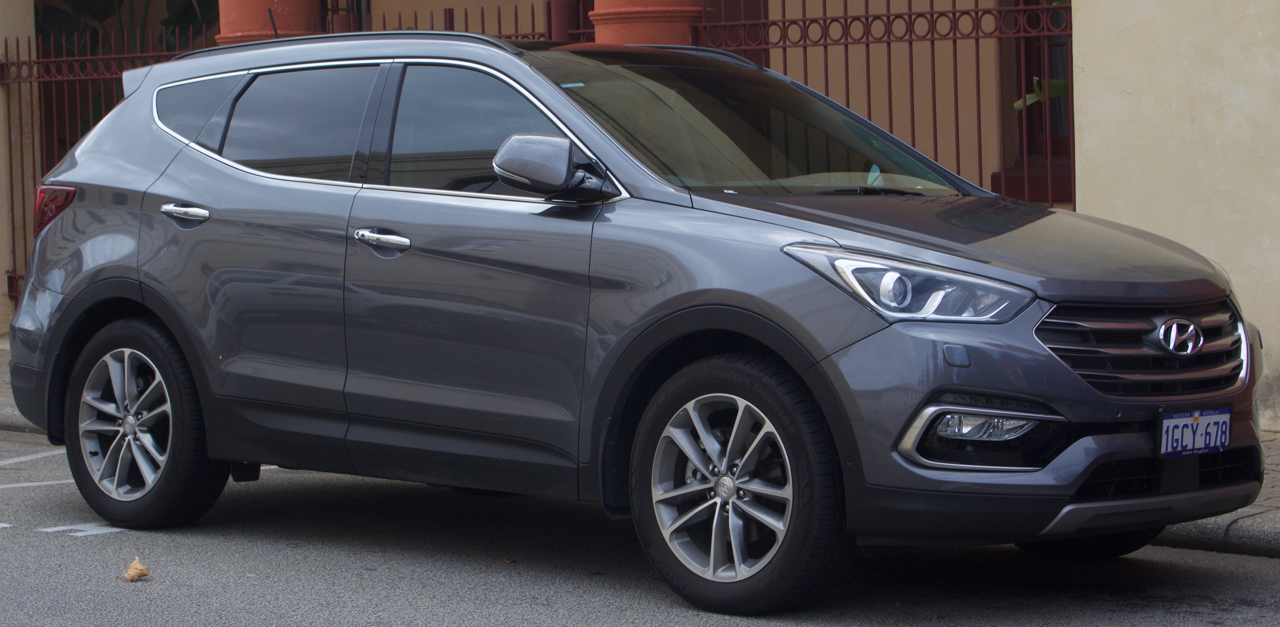 2016 Hyundai Santa Fe (DM3 Series II MY17) Highlander CRDi 4WD wagon. Photographed in Fremantle, Western Australia, Australia.